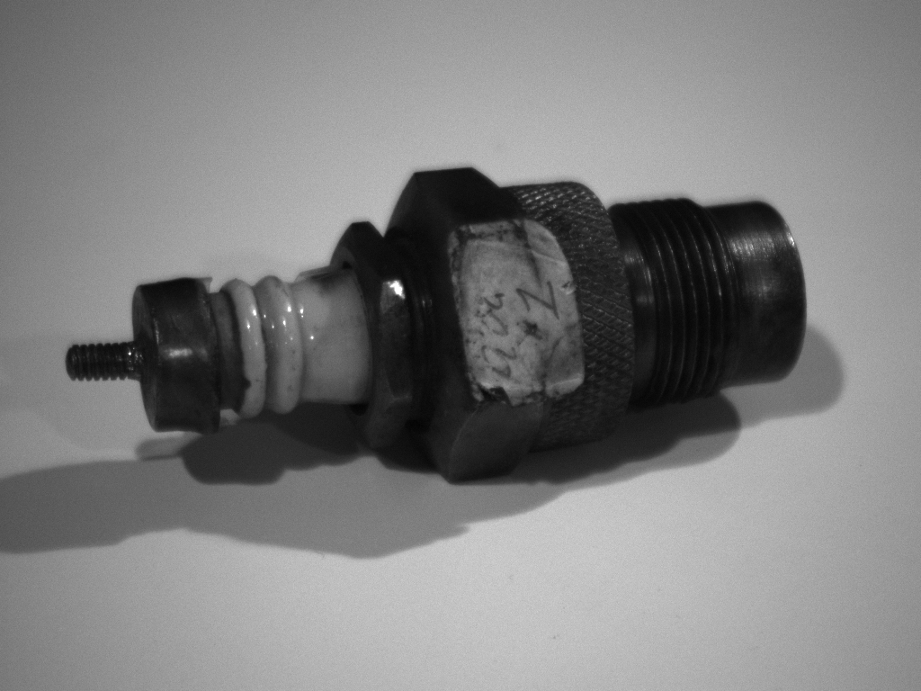 1920s Champion Spark Plug, 7/8", 18 thread